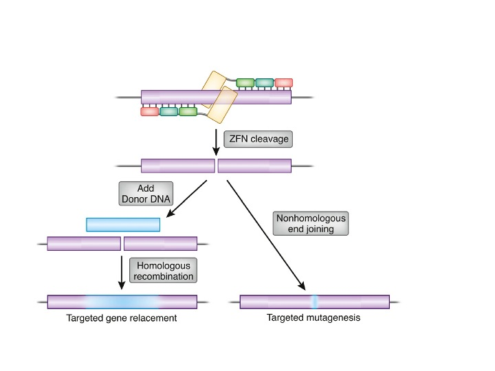 A pair of three zinc fingers are shown preparing to repair the cleaved double stranded break through either homologous recombination or non-homologous end joining.